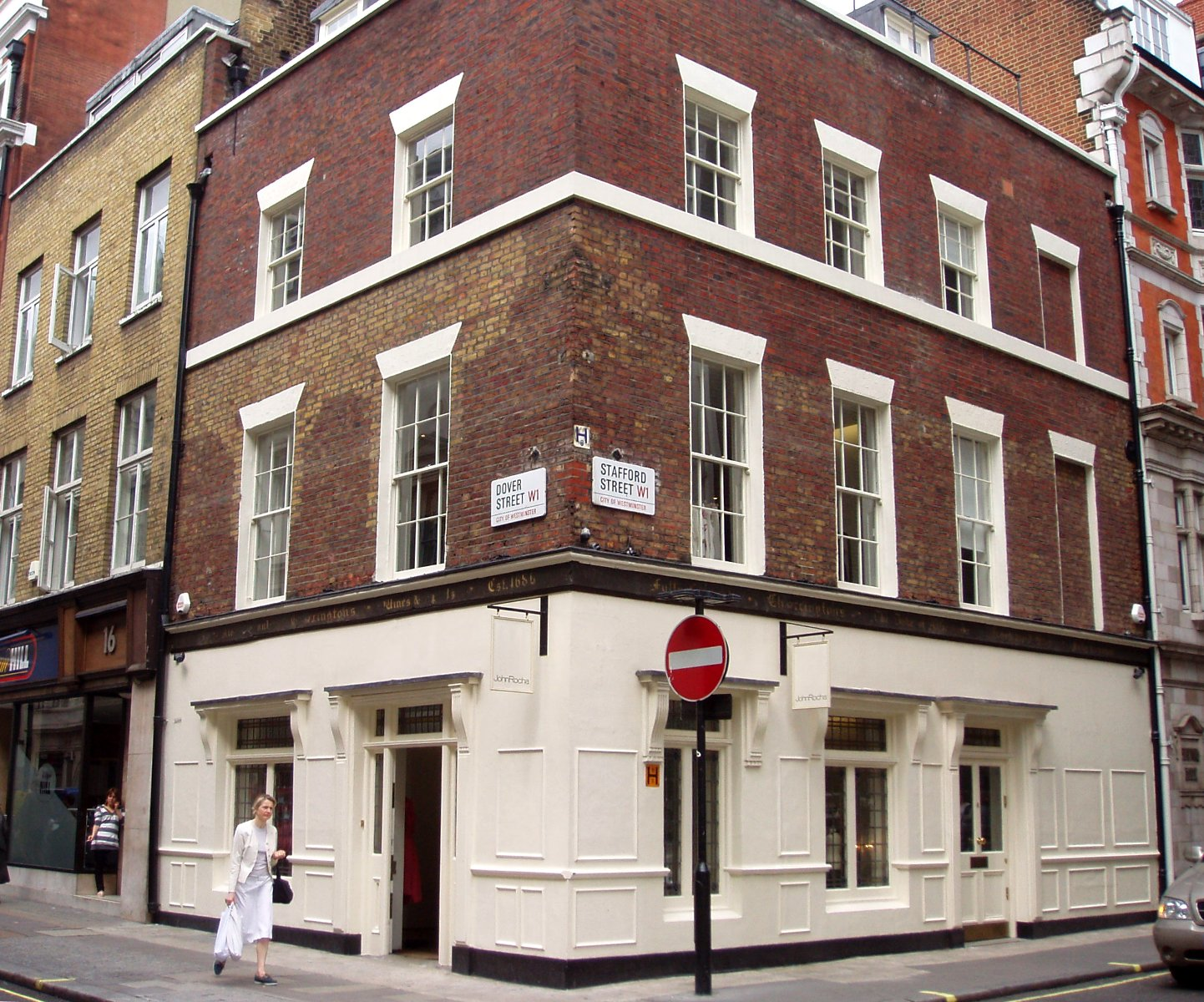 A fashion boutique which still retains some of the lettering identifying its former usage as a pub. Now it's an outlet of the designer John Rocha. (Nicholson's still have a pub a few doors down, the King's Head.) Address: 6 Stafford Street. Owner: Mitchells and Butlers [Nicholson's] (former); Charrington (former). Links: Fancyapint Beer in the Evening Dead Pubs (history)